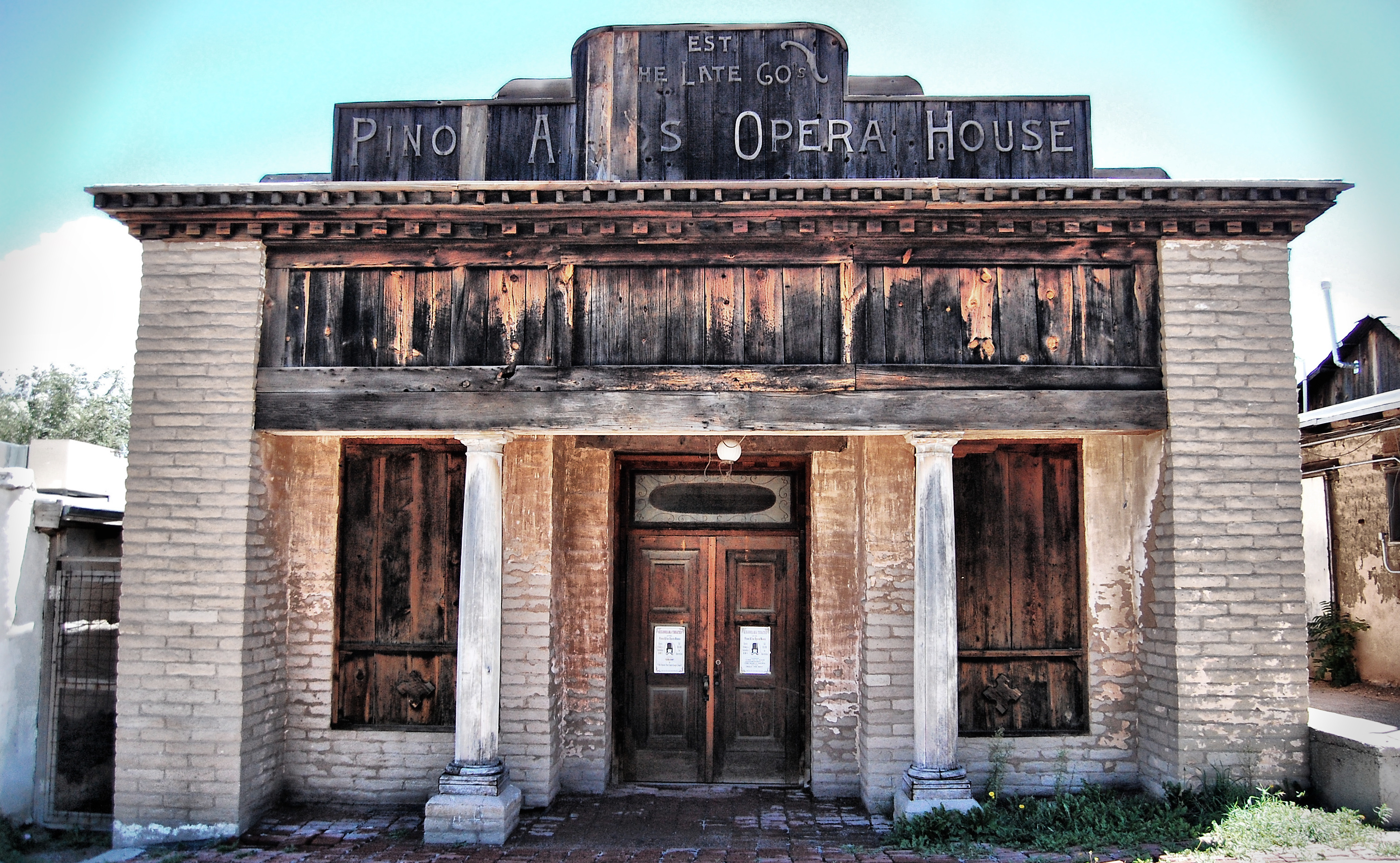 Pinos Altos Opera House. Pinos Altos (Tall Pines) is located six miles north of Silver City at an elevation of 7040 feet. Nestled into the Gila National Forest, the town began in 1860 when three frustrated 49-ers, Thomas Birch, Colonel Snively and another guy named Hicks, stopped to take a drink in Bear Creek and discovered gold.